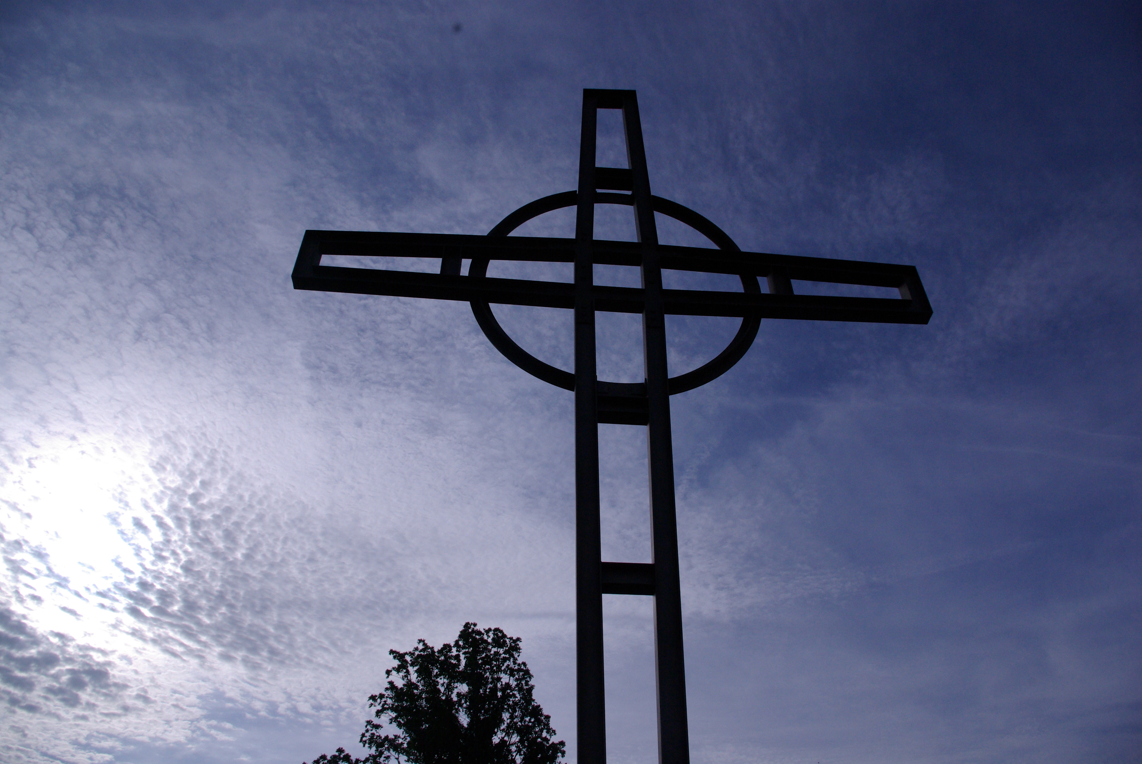 Camp Loughridge cross